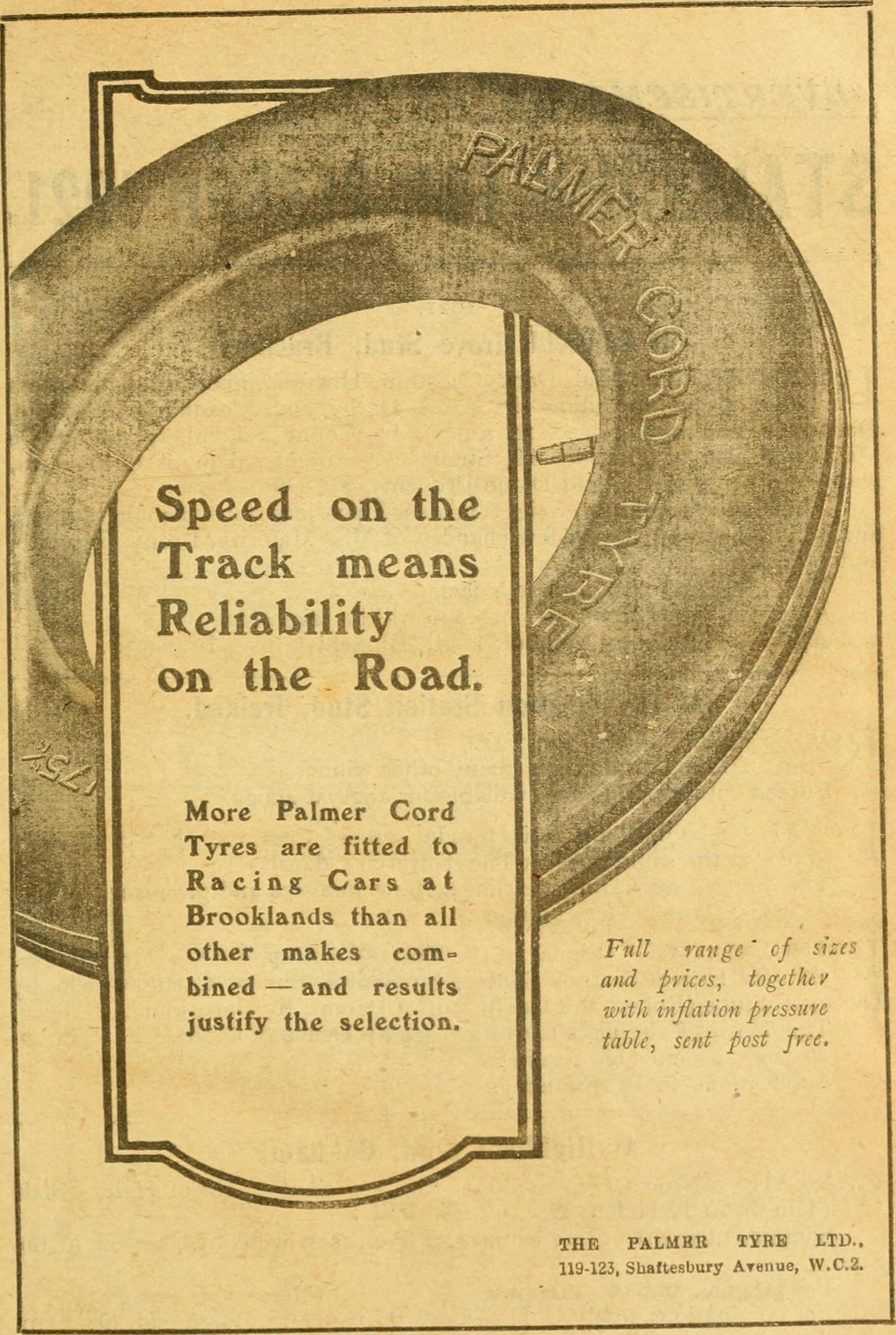 Palmer's Cord Tyres Title: Ruff's guide to the turf Year: 1920 (1920s) Authors: Subjects: Horses Horse racing Horsemen and horsewomen Publisher: London : Office of Ruff's Guide Text Appearing Before Image: amomj THE CAR SUPEREX.CEUXNT VAUXHALL MOTORS LIMITEDLUTON BEDFORDSHIRE T«U»koae (4 liae»): Lvtoa 466 Tele«r»m» : Caraaux Lutoa. Text Appearing After Image: ADVERTISEMENTS OF STALLIONS FOR SEASON 1921 1921. At Binfield Grove Stud, Bracknell. P\ECISION, a beautiful Dark Chestnut Horse (winner of seven races■■-^ value ;^3324, including the Ascot Derby, and Alexandra Handicap,Doncaster, and also placed 10 times), by Count Schomberg, out of BeSure (dam also of Cocksure H., Stedfast, Assurance, dam of Great Seal,and two other winners, and Dame Prudent). Decision carried top weight in every handicap for which he started,and he is the sire, with very few chances, of Miss Majority, Brony, Resolute,and others. Fee, i8gs, and i sov. grooms fee. Approved dams of winners of ;^2oo will be taken free. Apply to Sir Robert Wilmot, Bart., Binfield Grove, Bracknell. R At the Straffan Station Stud, Ireland. 01 HERODE.—Full for 1921. Sire of The Tetrarch and many other winners.Fifteen subscriptions are availabb for 1922 at 400gs. ROYAL CANOPY, by Roi Herode, out of Cream o th Sky (a marebred on the same lines as The Tetrarchs dam).This horses stock, noruffsguidetoturf00lond